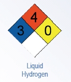 NFPA_704_Hazard_placard_liquid_hydrogen.jpg Images from